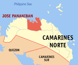 Map of Camarines Norte showing the location of Jose Panganiban